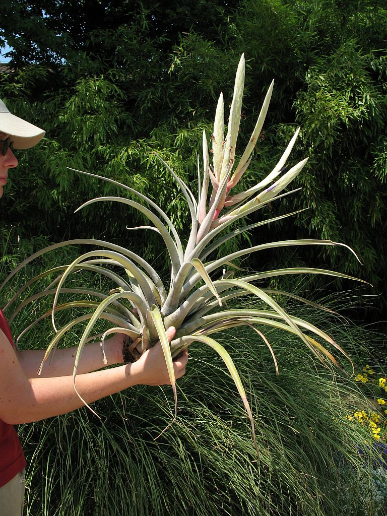 Tillandsia copanensis in cultivation at the Botanical Garden of Heidelberg, Germany.